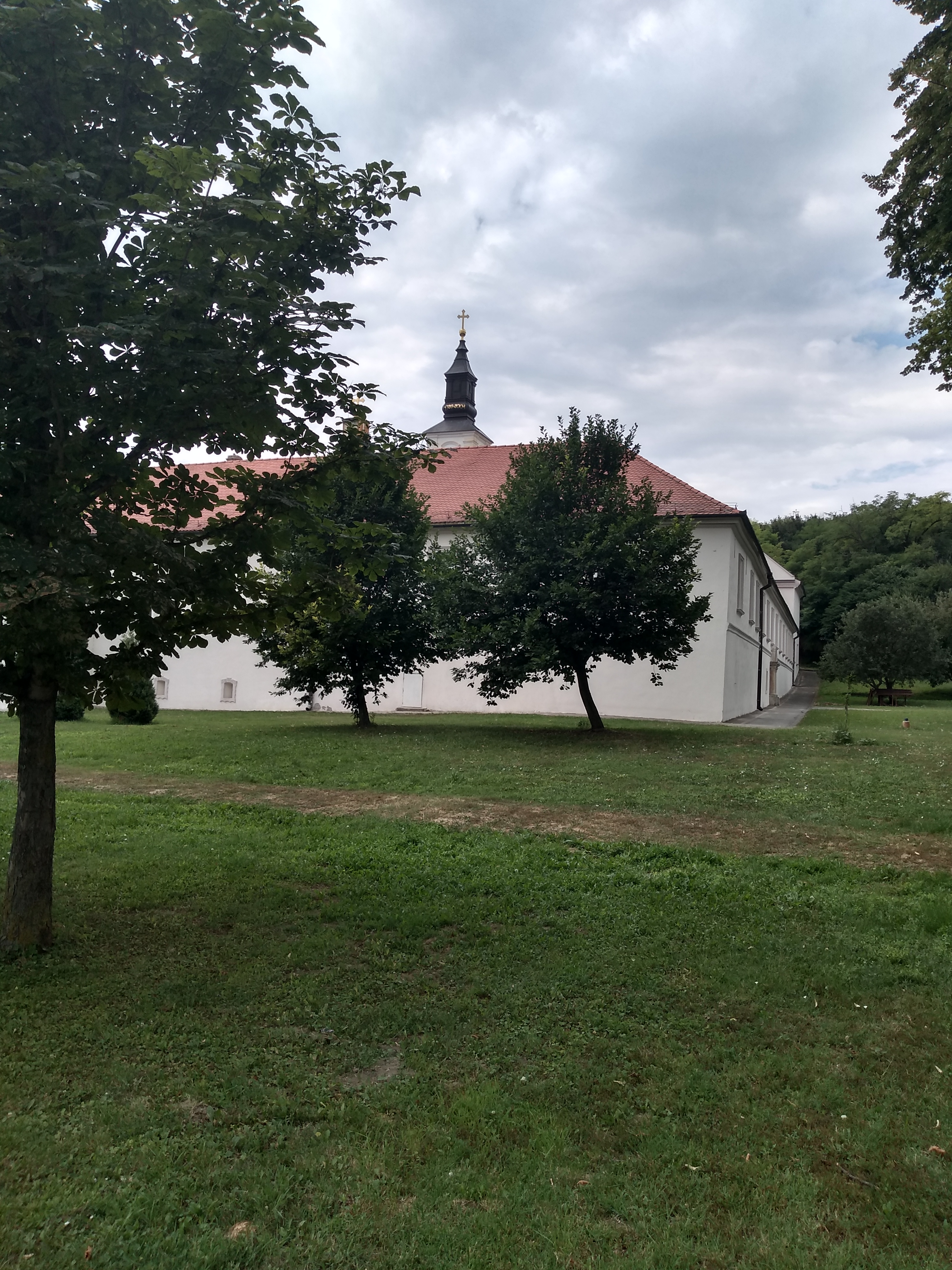 Krušedol Monastery Srpski (latinica): Crkva Manastira Krušedol sa zvonikom, 2019